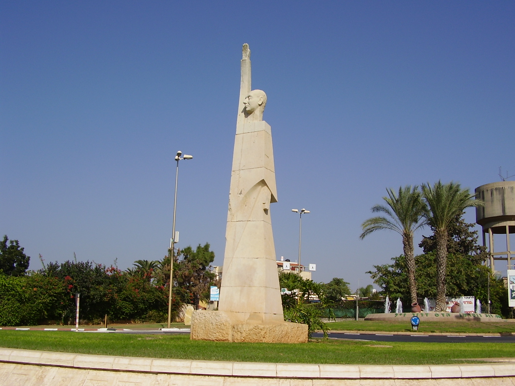 statue of sir alfred mond (lord melchett) by batia lichansky, tel-mond, israel